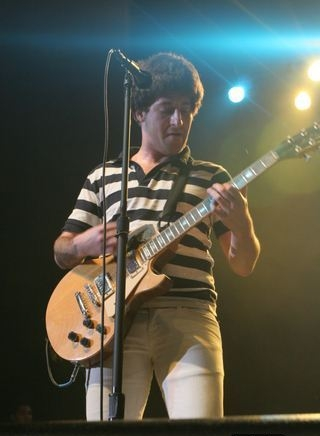 Joe Trohman of Fall Out Boy in concert.